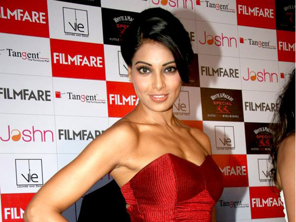 Bipasha Basu at the launch of Filmfare